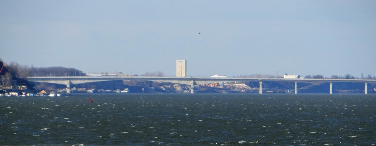 Pupin Bridge, as seen from Dorćol.